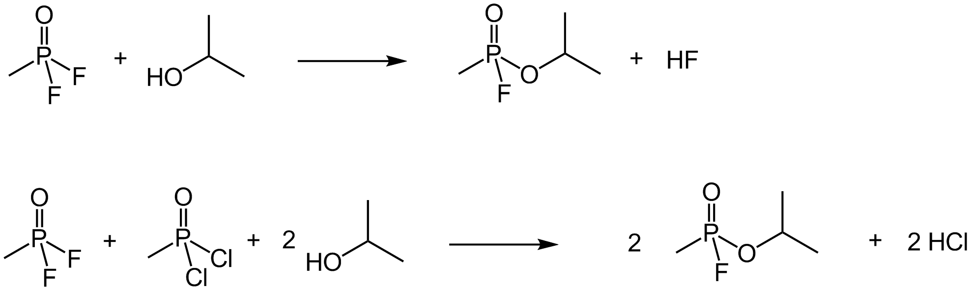 Two variations of Sarin (GB) synthesis, the binary and the "Di-Di" process.